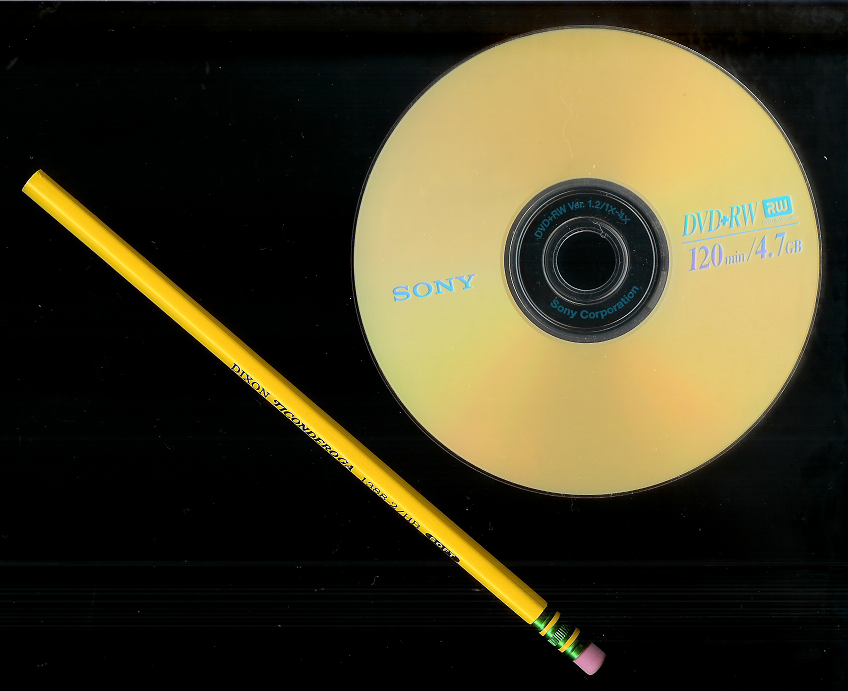 The image shows a comparison in size of a Dixon Ticonderoga pencil and the size of a Sony DVD+RW.